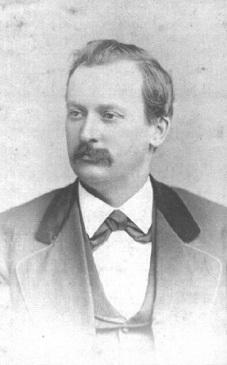 John Alexander Martin (1839-1889) I inherited this photograph from my father who received it from his mother, Ruth Martin, the daughter of John Alexander Martin. There is a copy of my original at